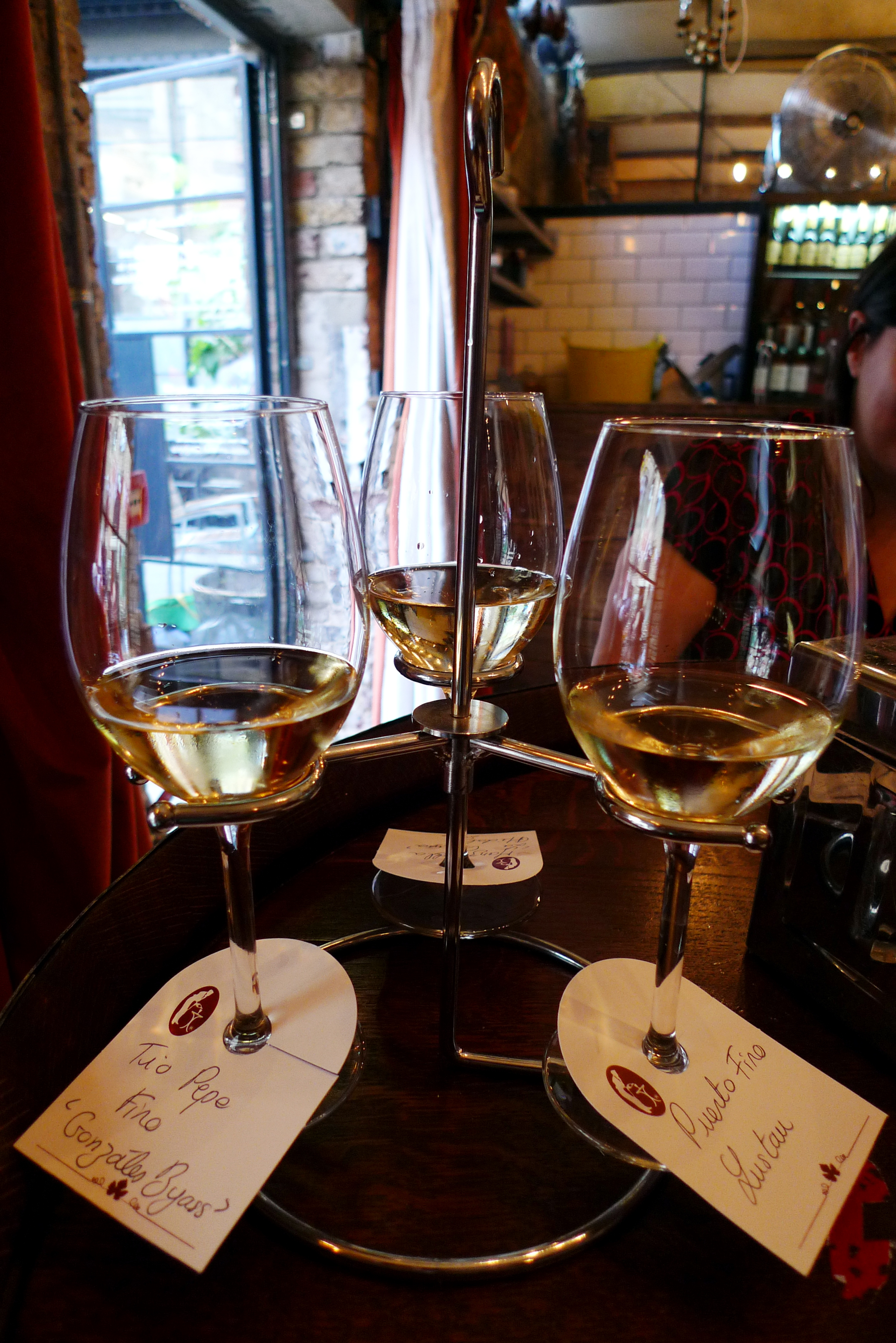 One of the sherry flights ("Los tres pueblos"), with a selection of fino sherries. At Bar Pepito, Varnishers Yard.